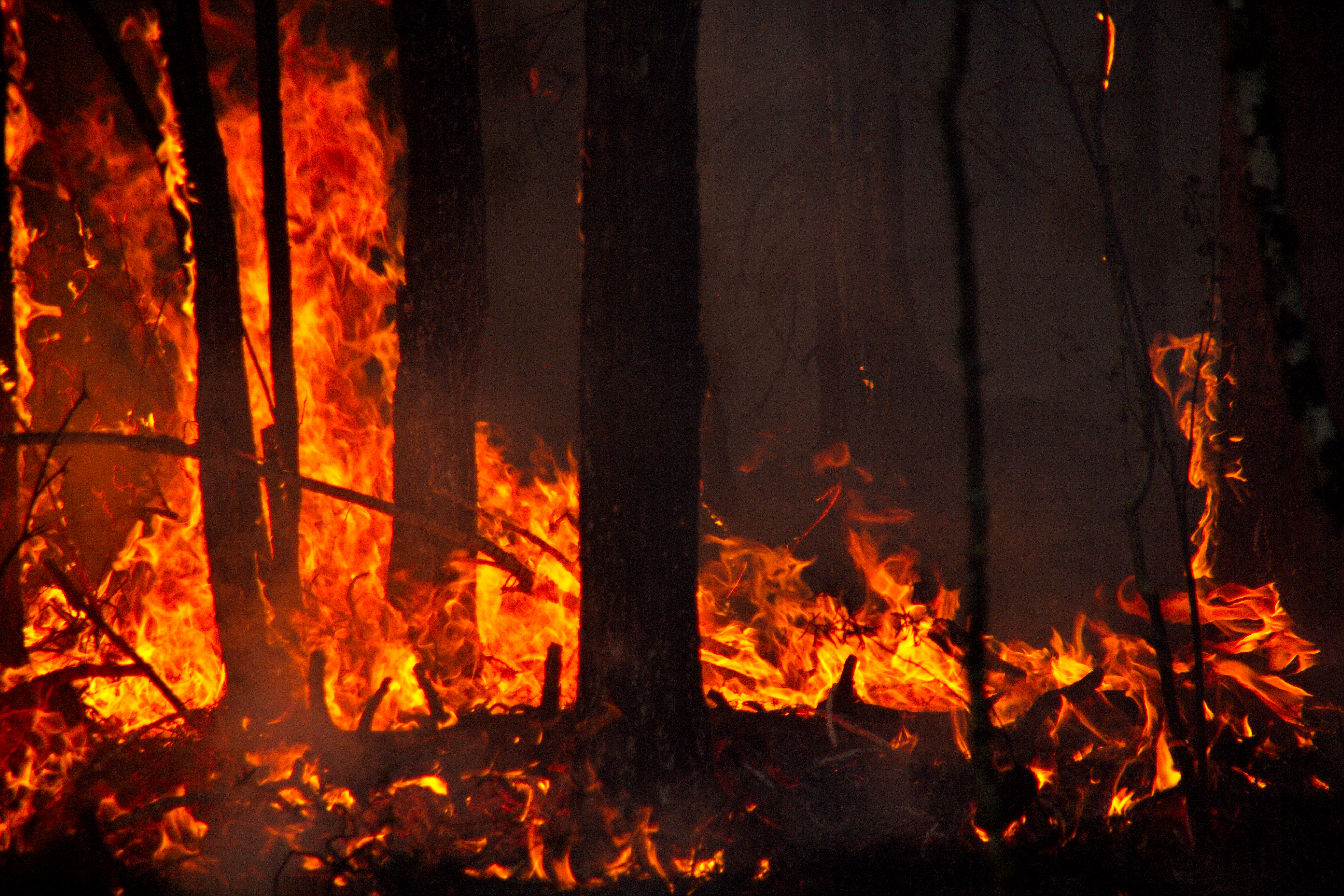 a closer view...